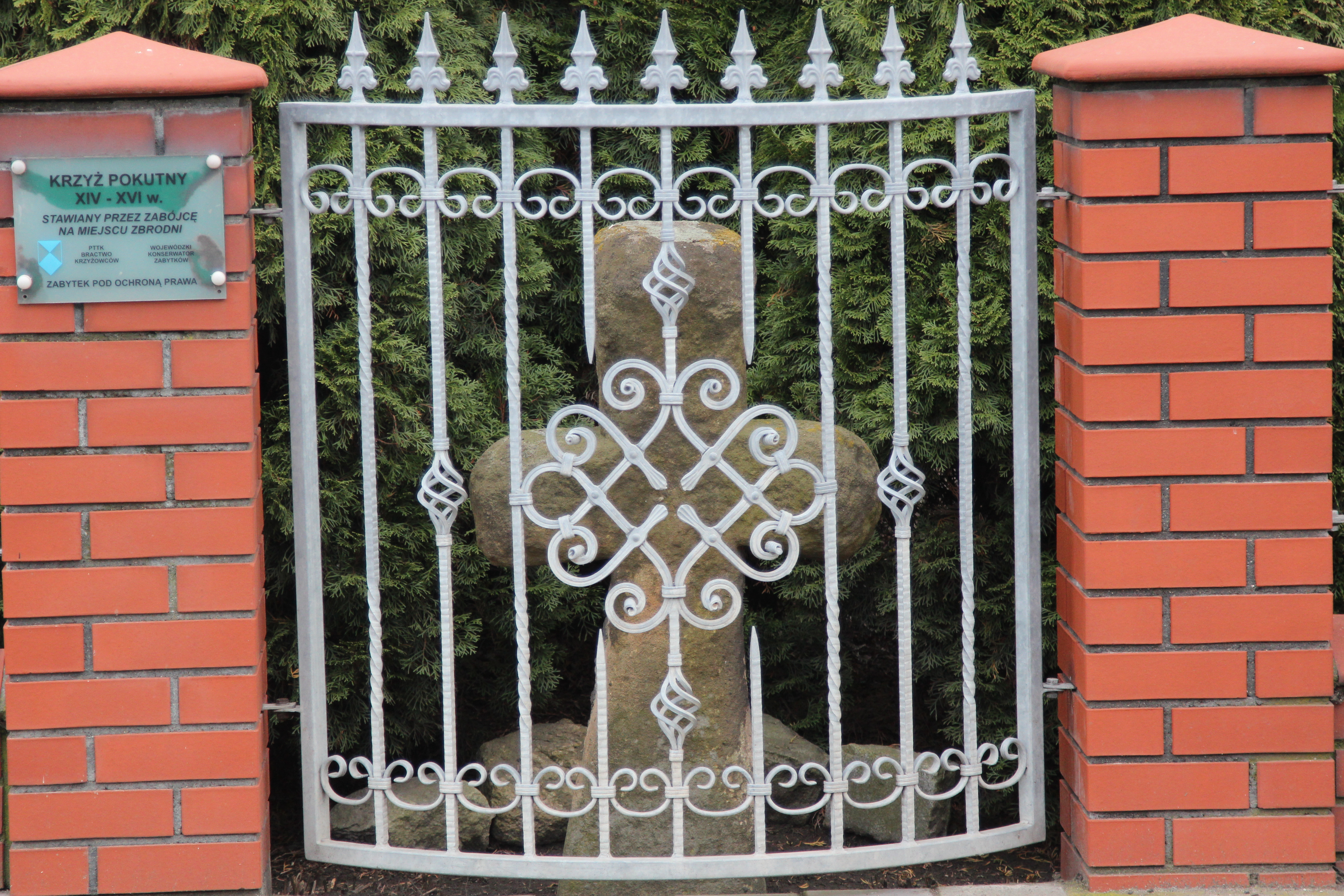 Stone cross in Lekartów.